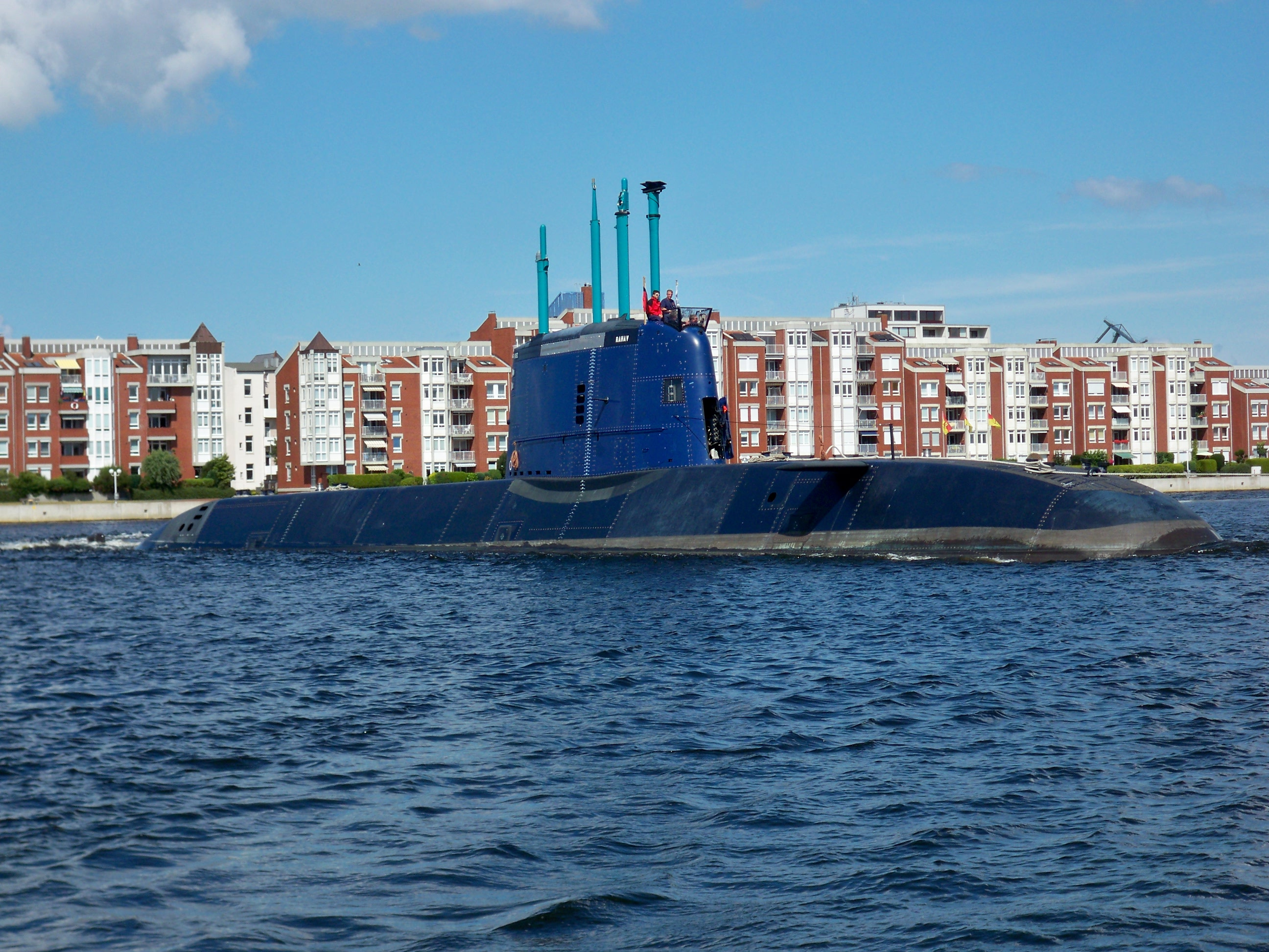 Not yet commissioned Israeli submarine Rahav conducting sea trials in the ports of Wilhelmshaven